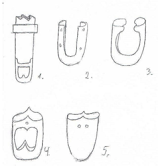 Types of "Ortblech"